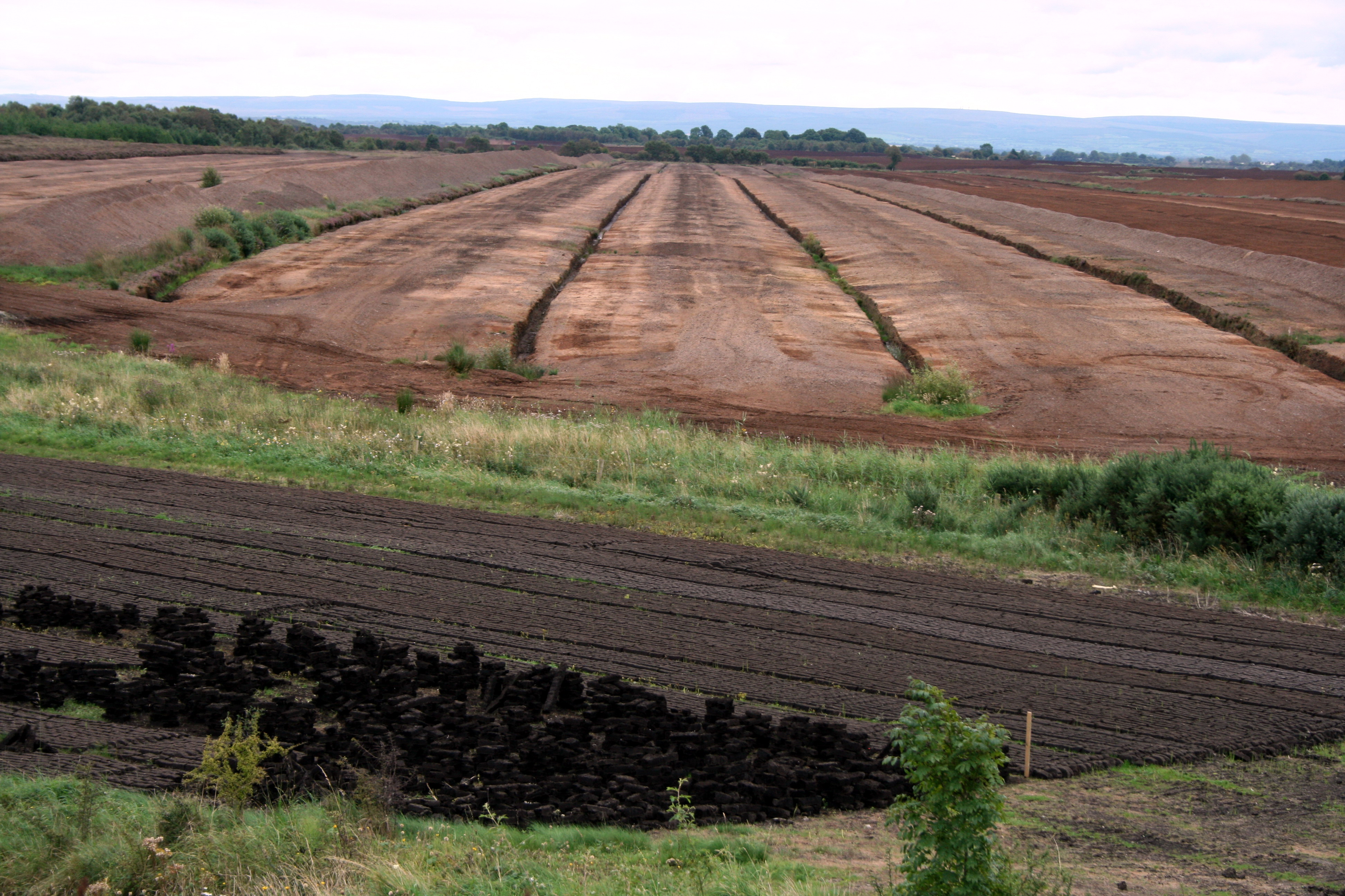 Industrial peat harvesting in a section of the Bog of Allen in County Offaly in the Irish Midlands.